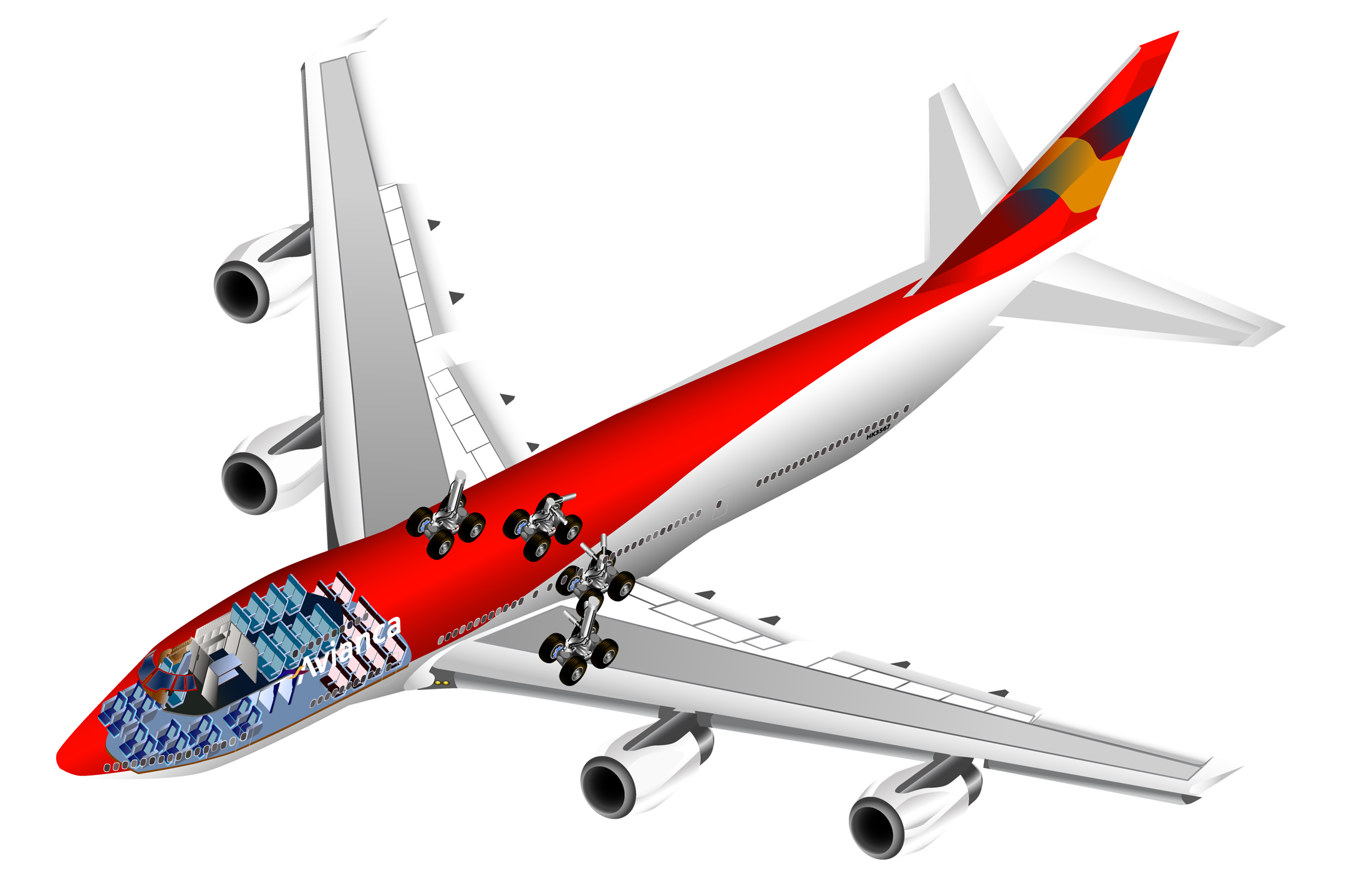 Boeing 747 Cutaway showing top deck and lower deck plus undercarriage